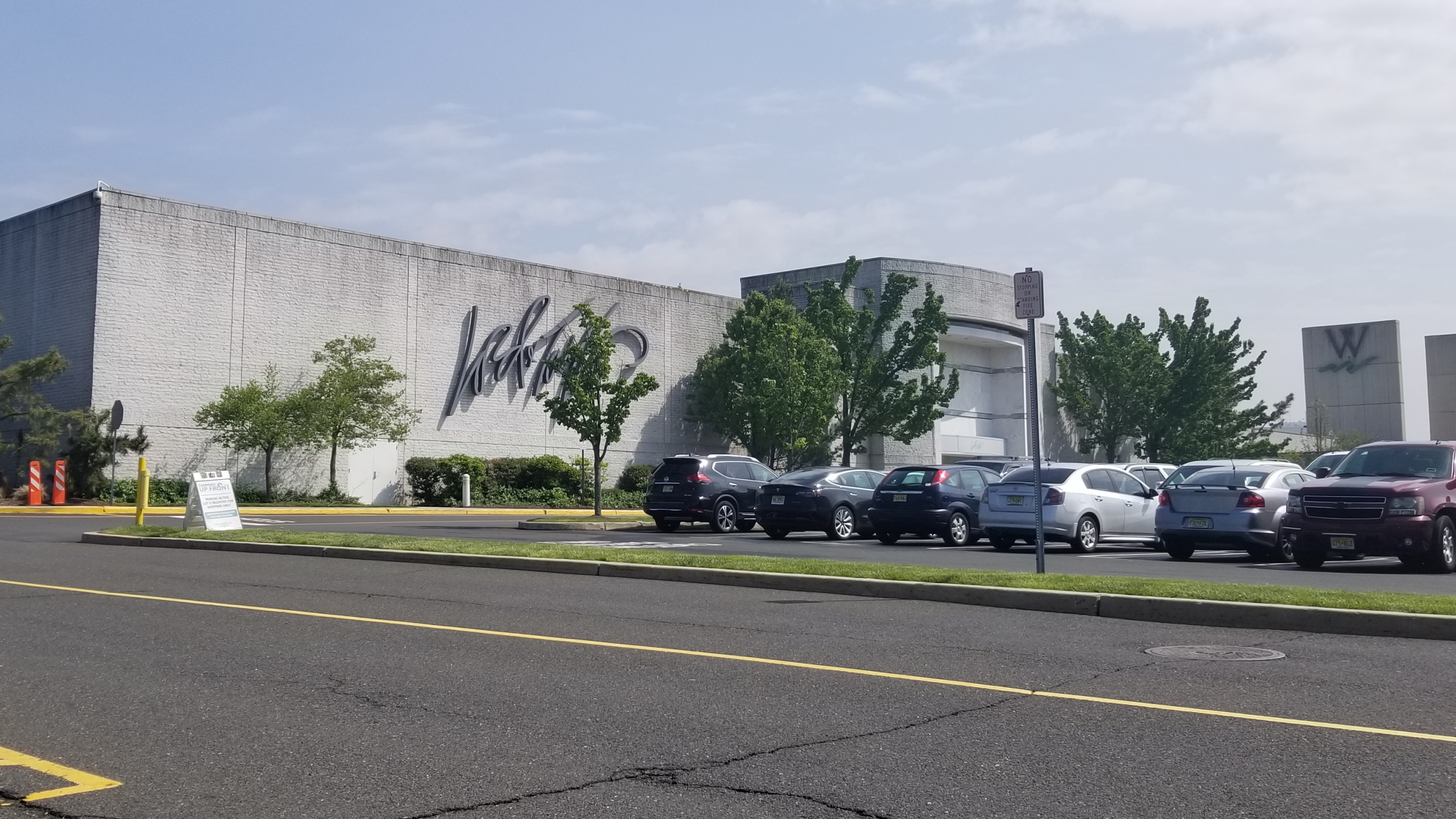 Woodbridge Center, Woodbridge, NJ May 2019